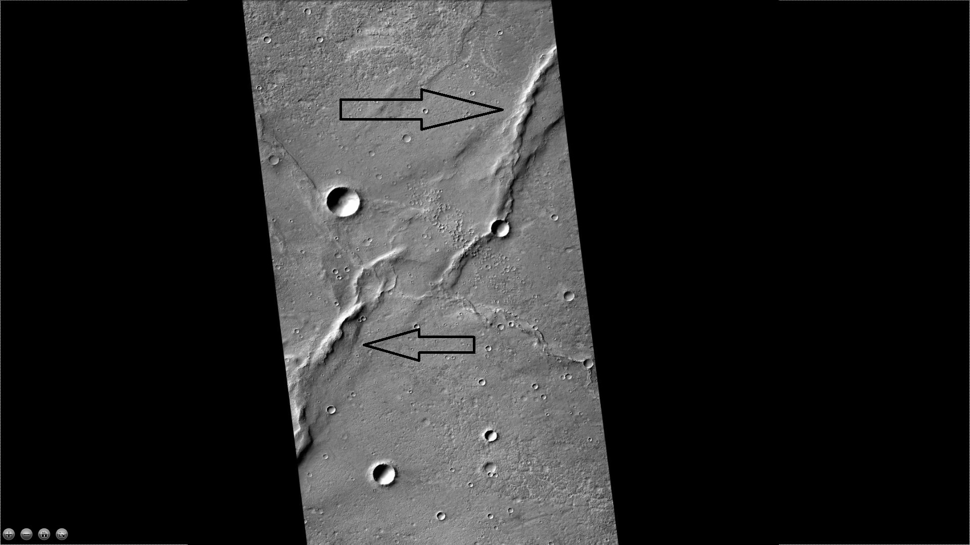 Wrinkle ridge in Coprates quadrangle, as seen by CTX